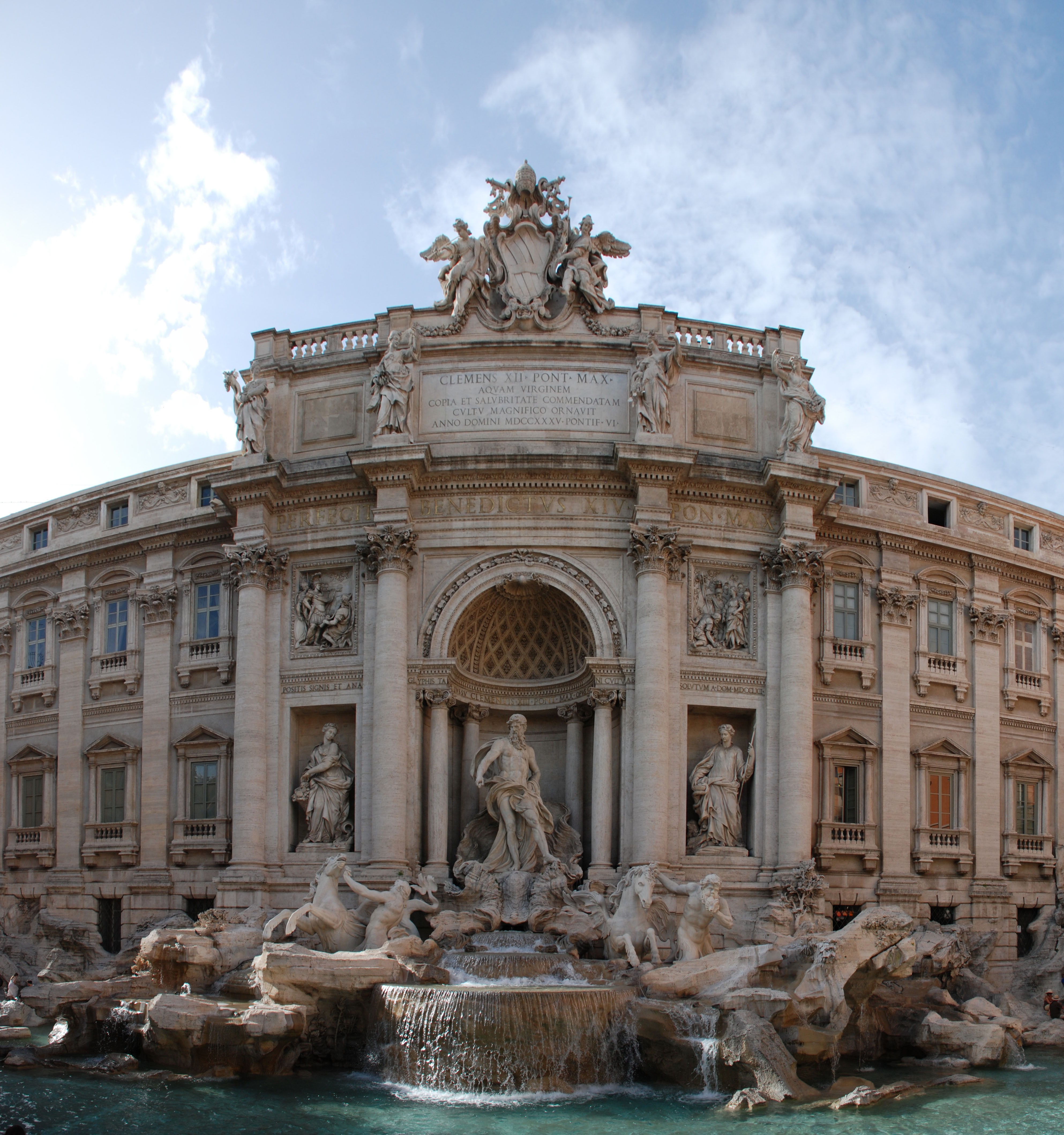 A panoramic view of Trevi Fountain in Rome, Italy. Panorama stitched from 3 photos.